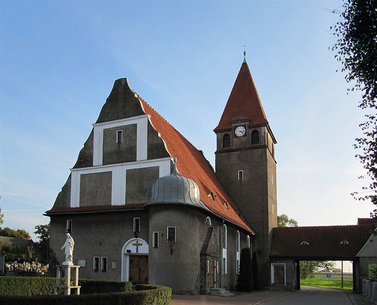 Church in wegierki village